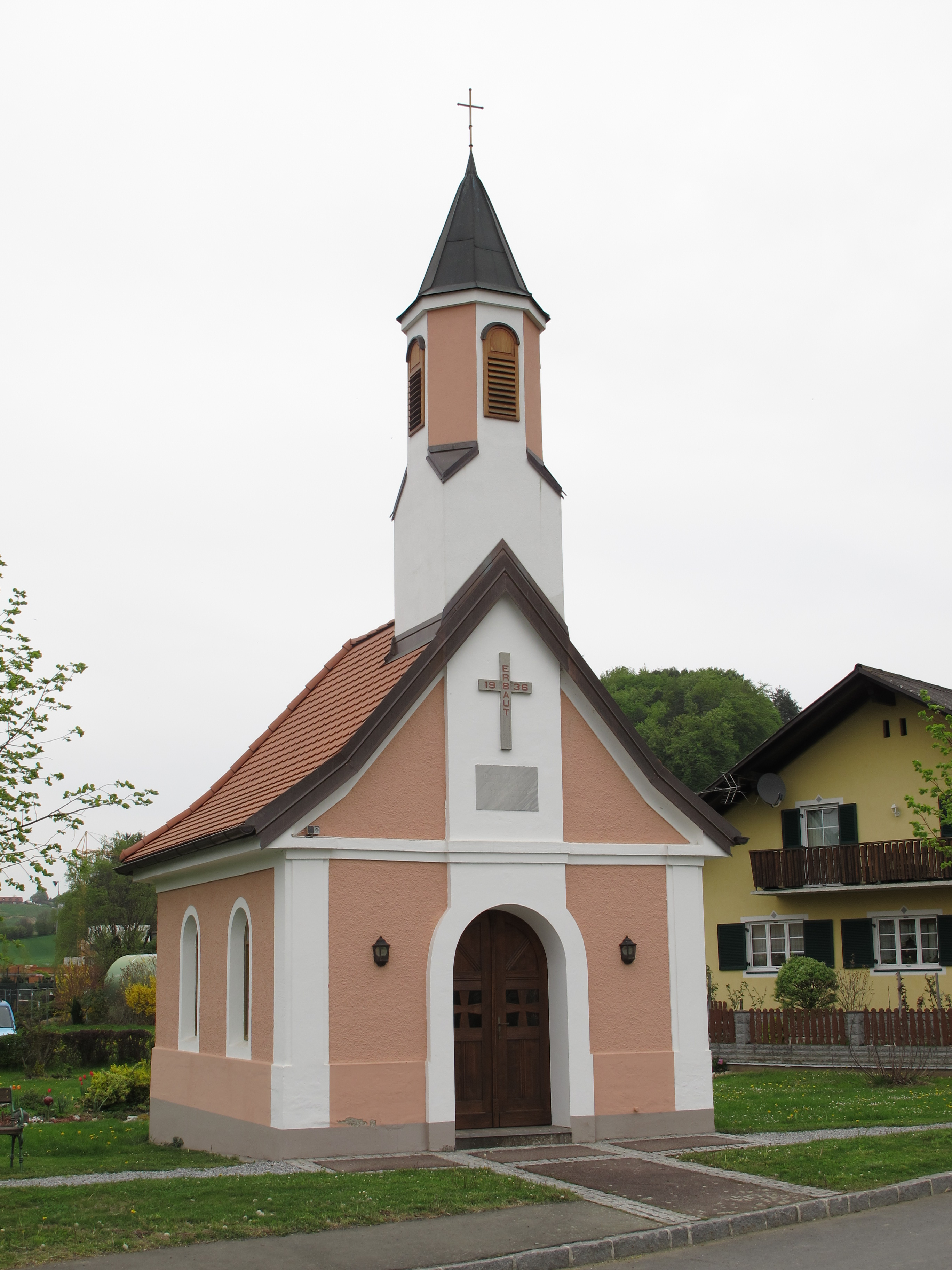 Ortskapelle Wetzelsdorf Auersbach